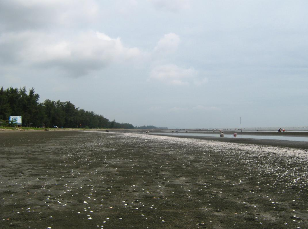 This picture is taken during my journey to Can Gio. I took this photograph in the morning that why it looks so dark. Used to portray the essay Can Gio at Wikipedia.